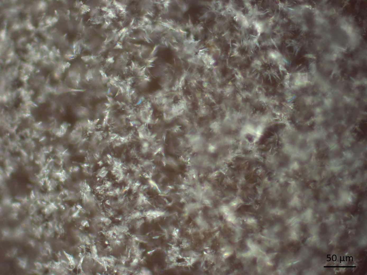 Chocolate filled with Marzipan forming fat bloom at the surface.